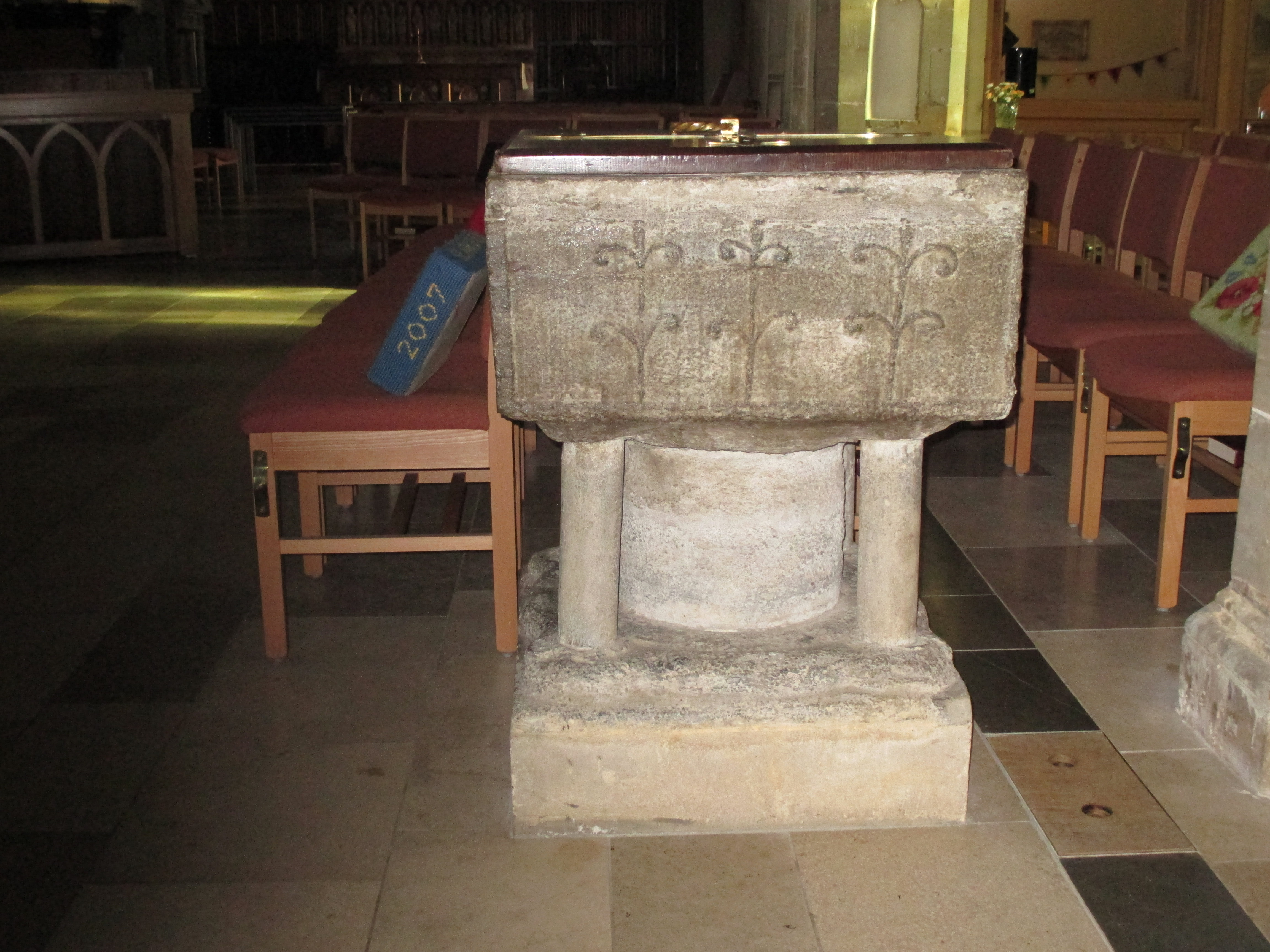 The 12th-century font of St Mary's Church, Slaugham, West Sussex